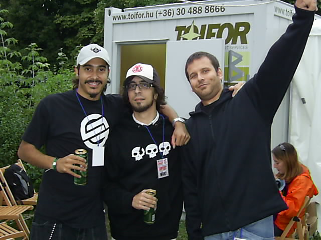 Ferman Akgül, Yagmur Sarigül and Cem Bahtiyar of Turkish rock band maNga backstage at Sziget Festival, Hungary; 13.08.2006.